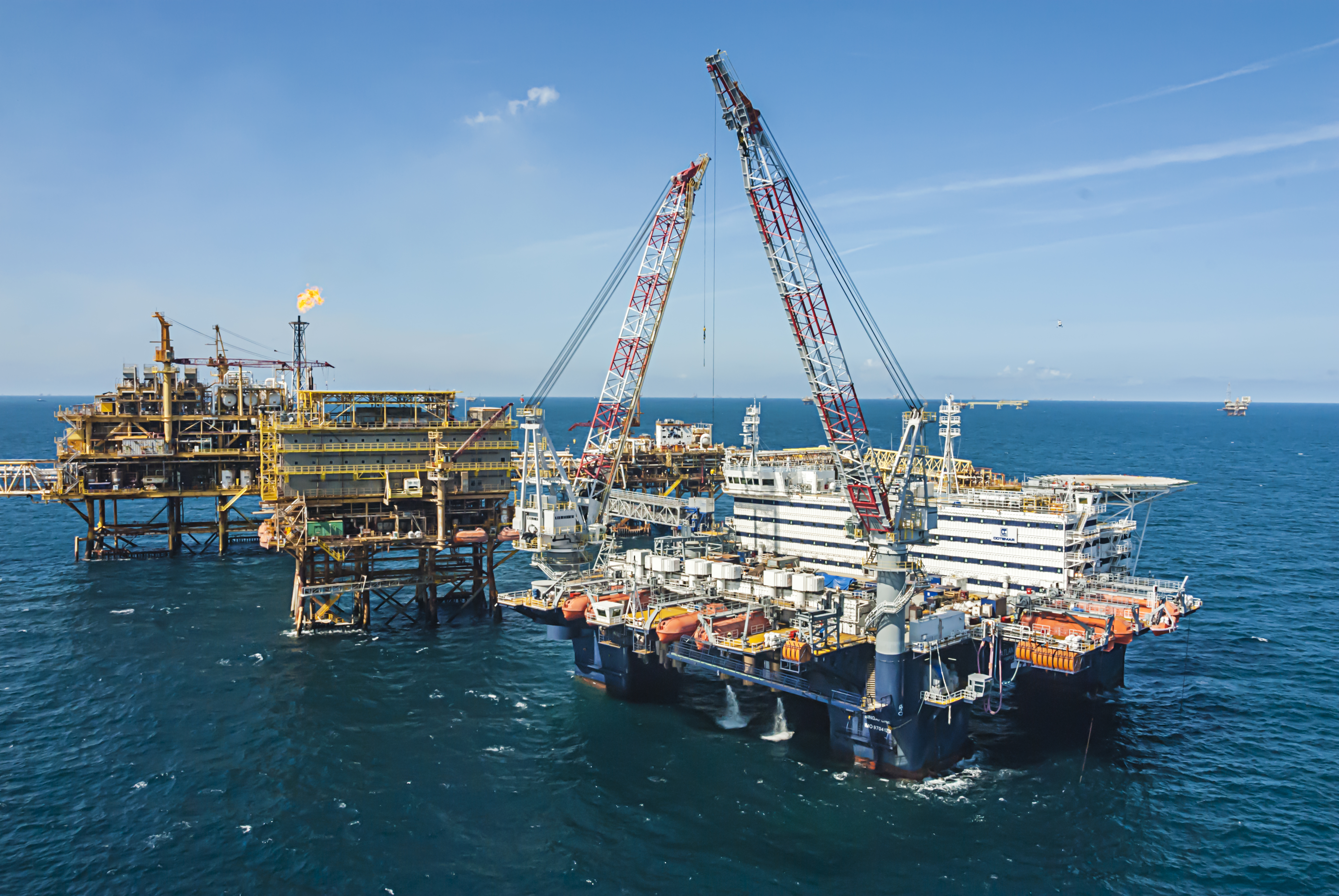 Neptuno Vessel In the Gulf of Mexico